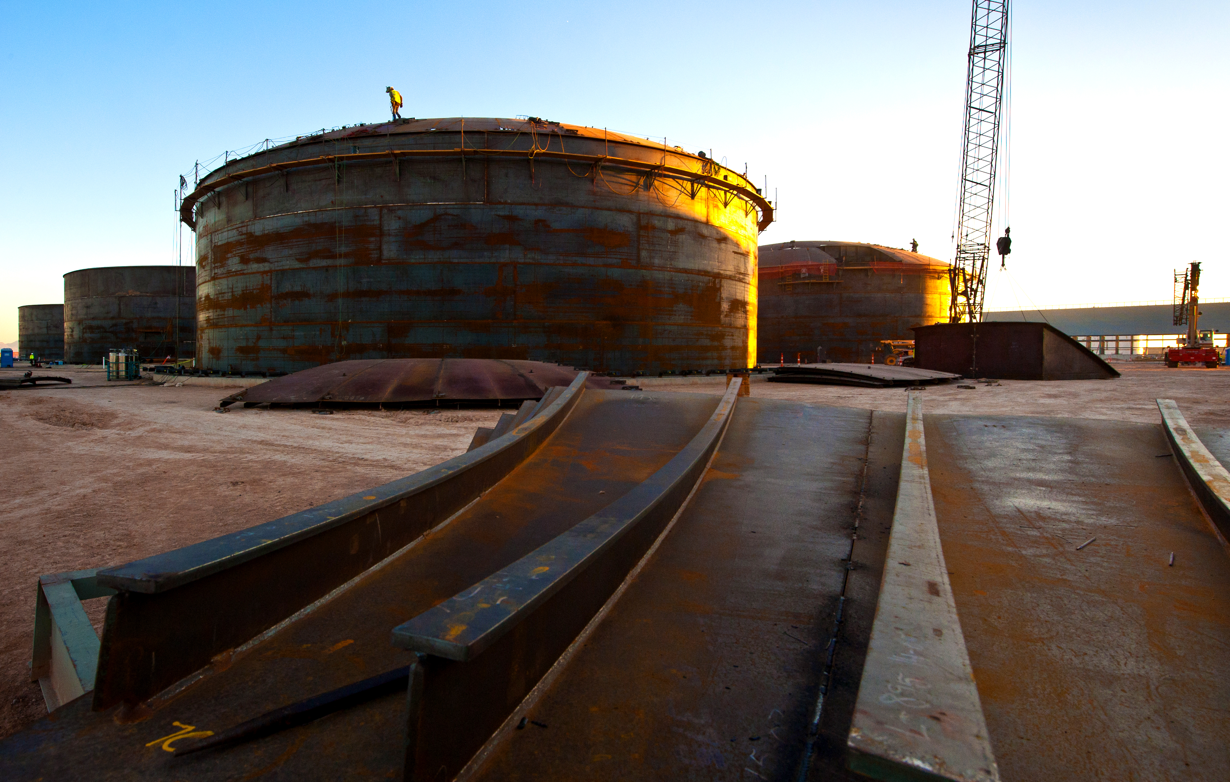 Workers construct one of a dozen molten salt tanks at Abengoa's Solana Plant. The molten salt tanks will generate clean, renewable electricity with conventional steam turbines.